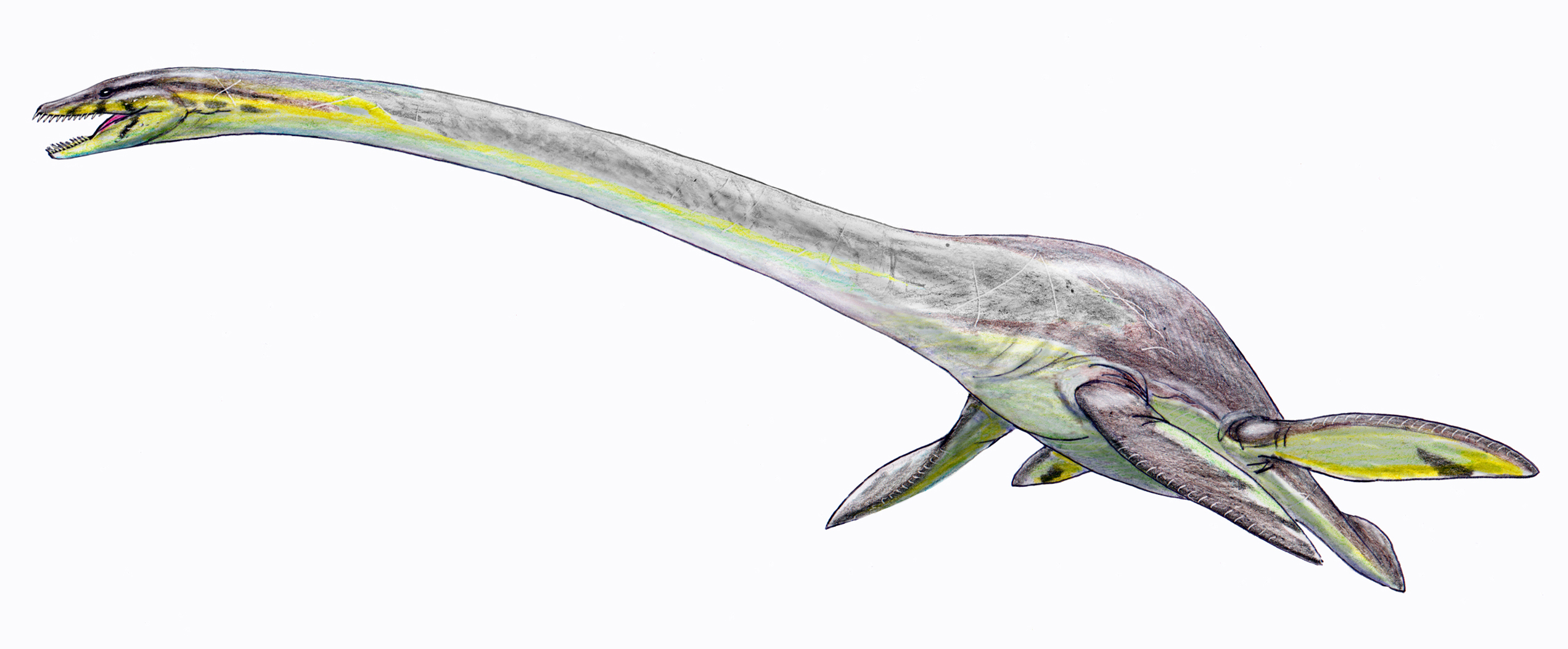 Elasmosaurus platyurus, plesiosaurian from Late Cretaceous (Campanian) of North America